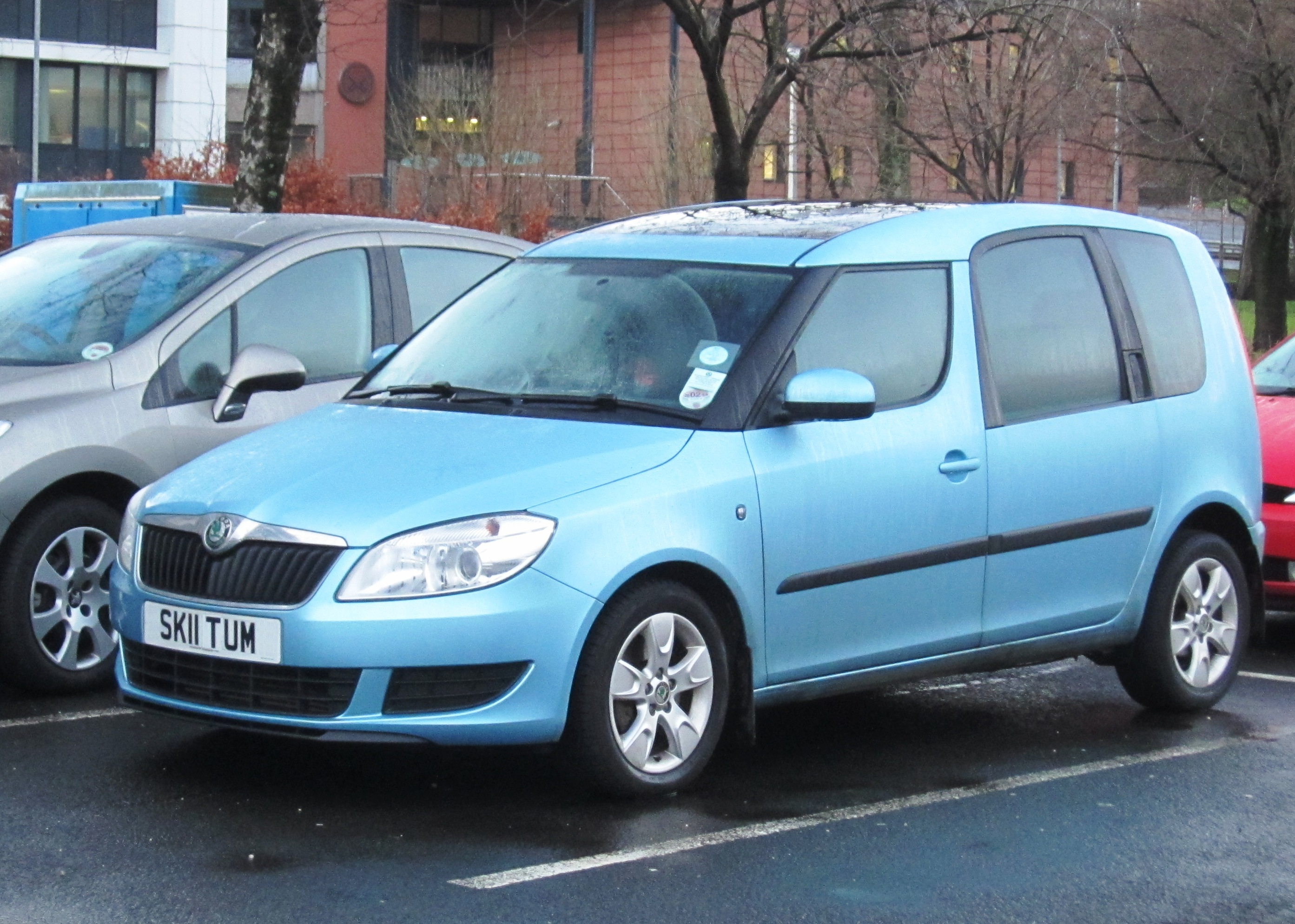 Skoda Roomster diesel in Glasgow